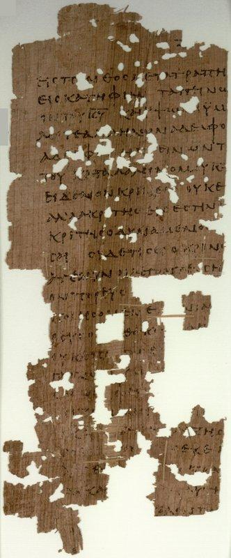 page of Papyrus 100 with text of James 4:9-5:1